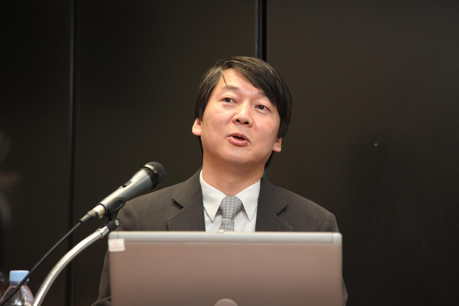 Ahn Cheol-Soo